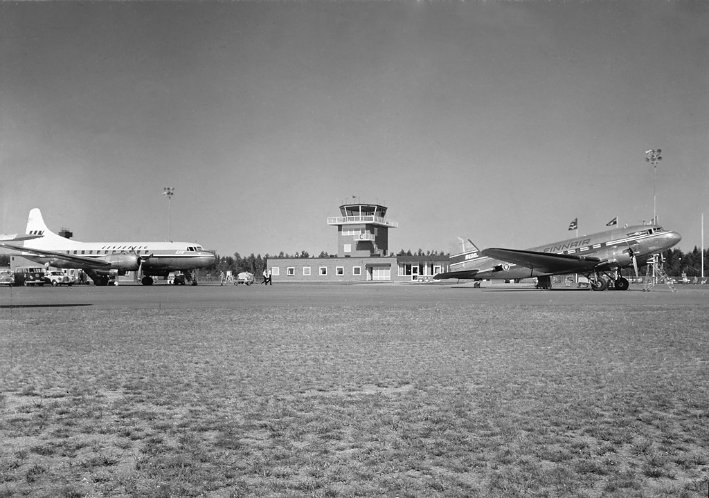 Umeå airport with two aircraft: a Convair CV-440 of the Swedish airline Linjeflyg and a Douglas DC-3 of the Finnish airline Finnair.